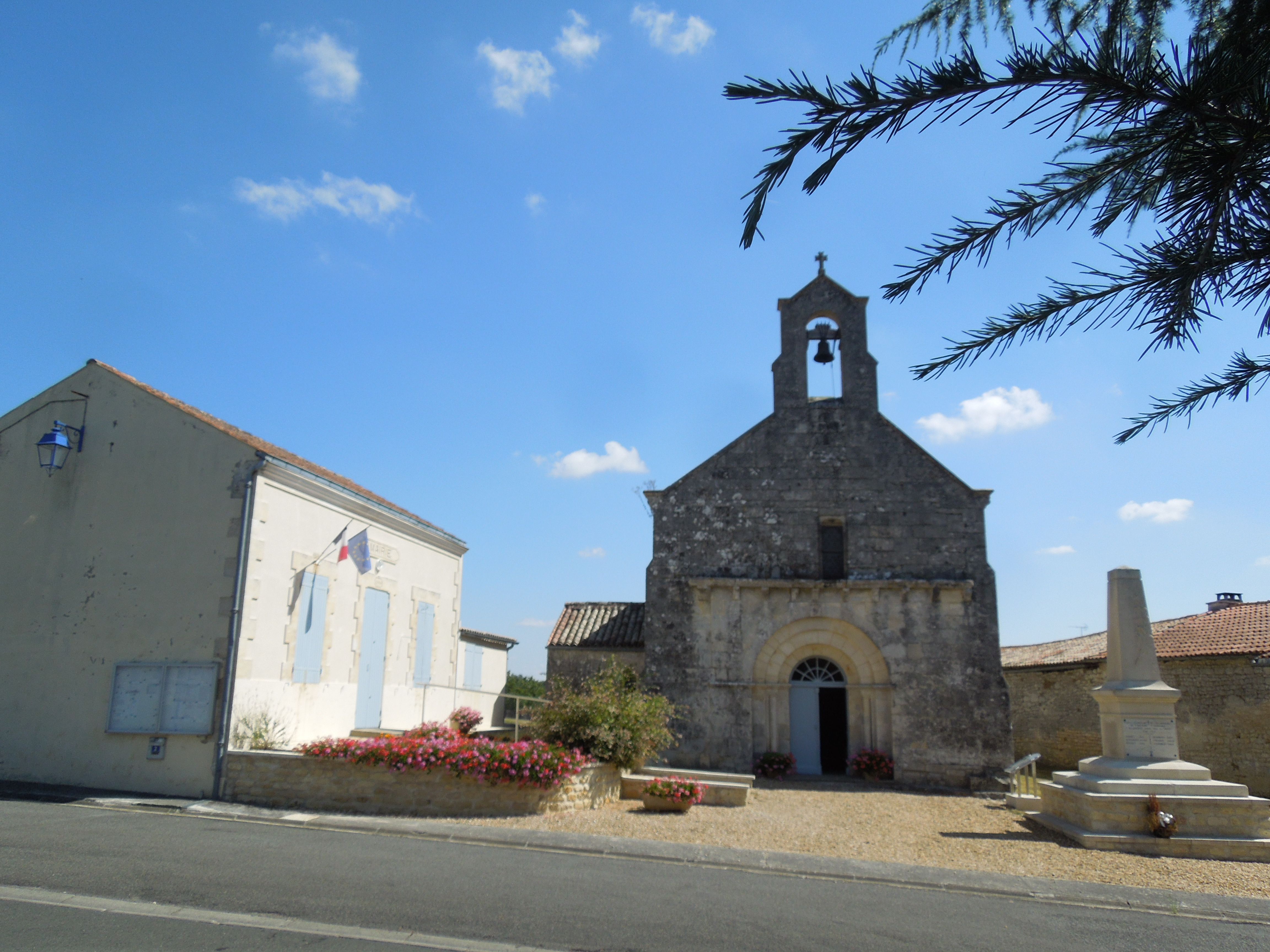 Saint-Grégoire-d'Ardennes: mairie, church, war memorial